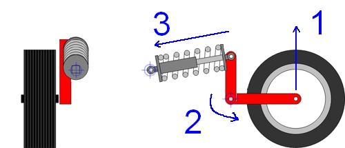 A horizontal spring construction, a technique not primarily associated with Christies US1836446A patent.